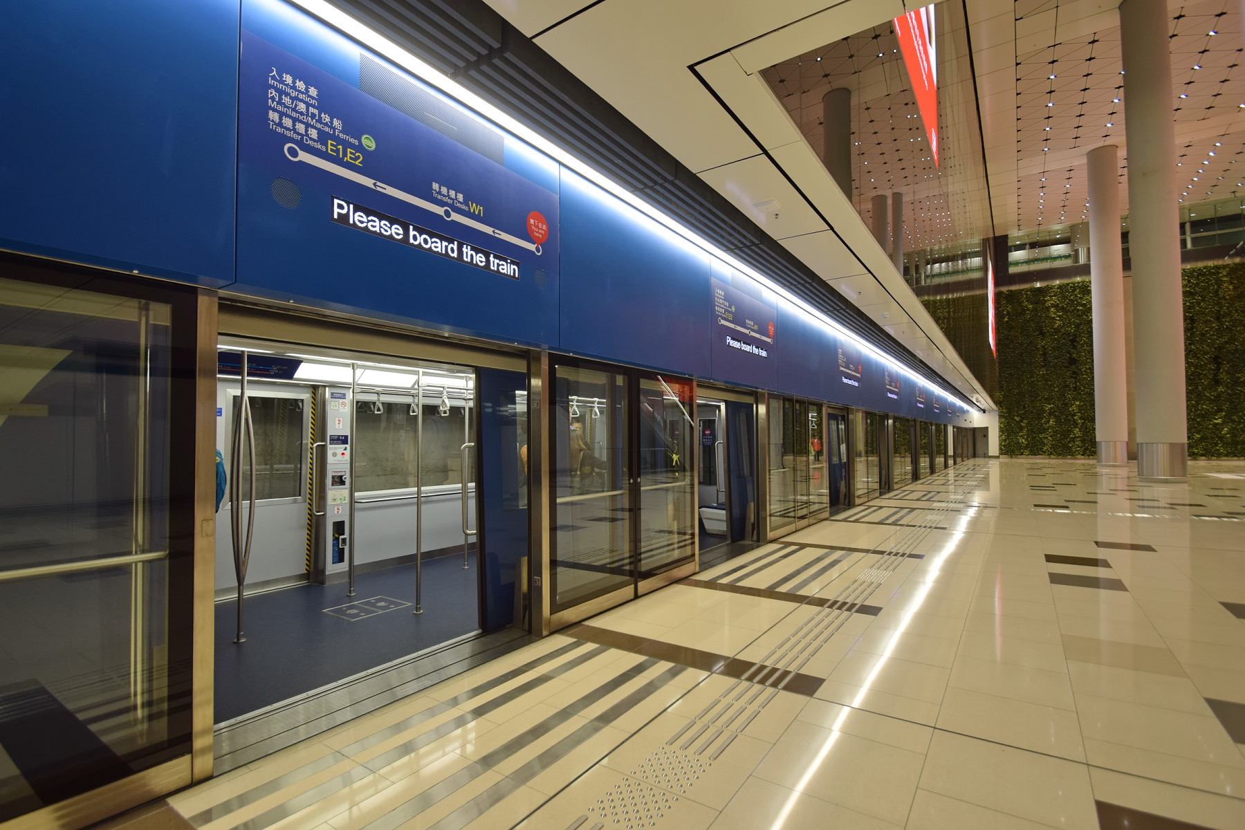 APM Train at Midfield Concourse Station, Hong Kong International Airport